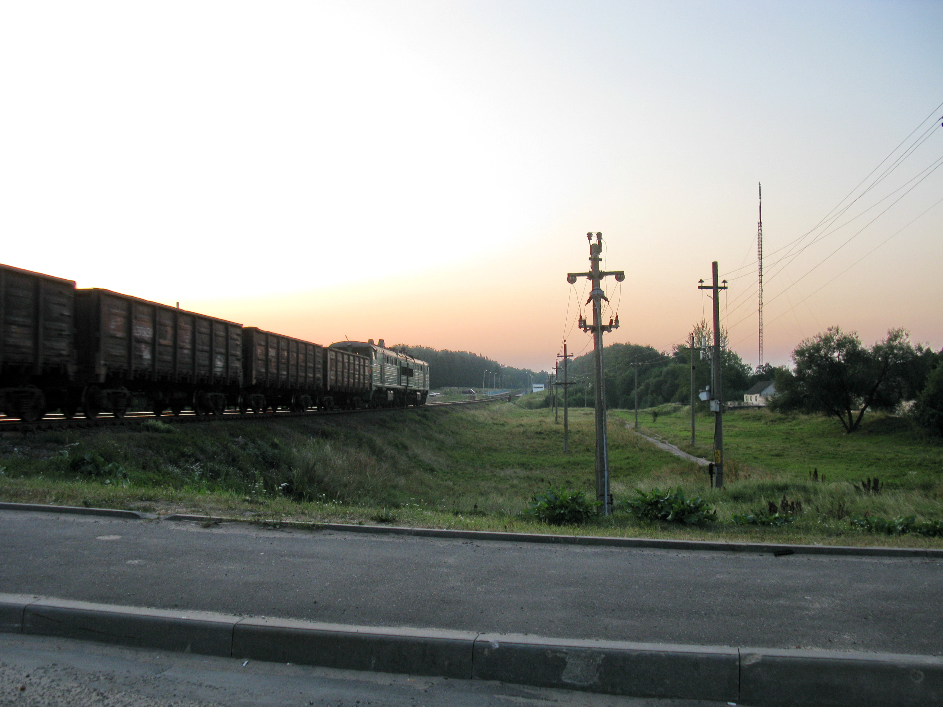 Smarhon', Belarus. Morning train